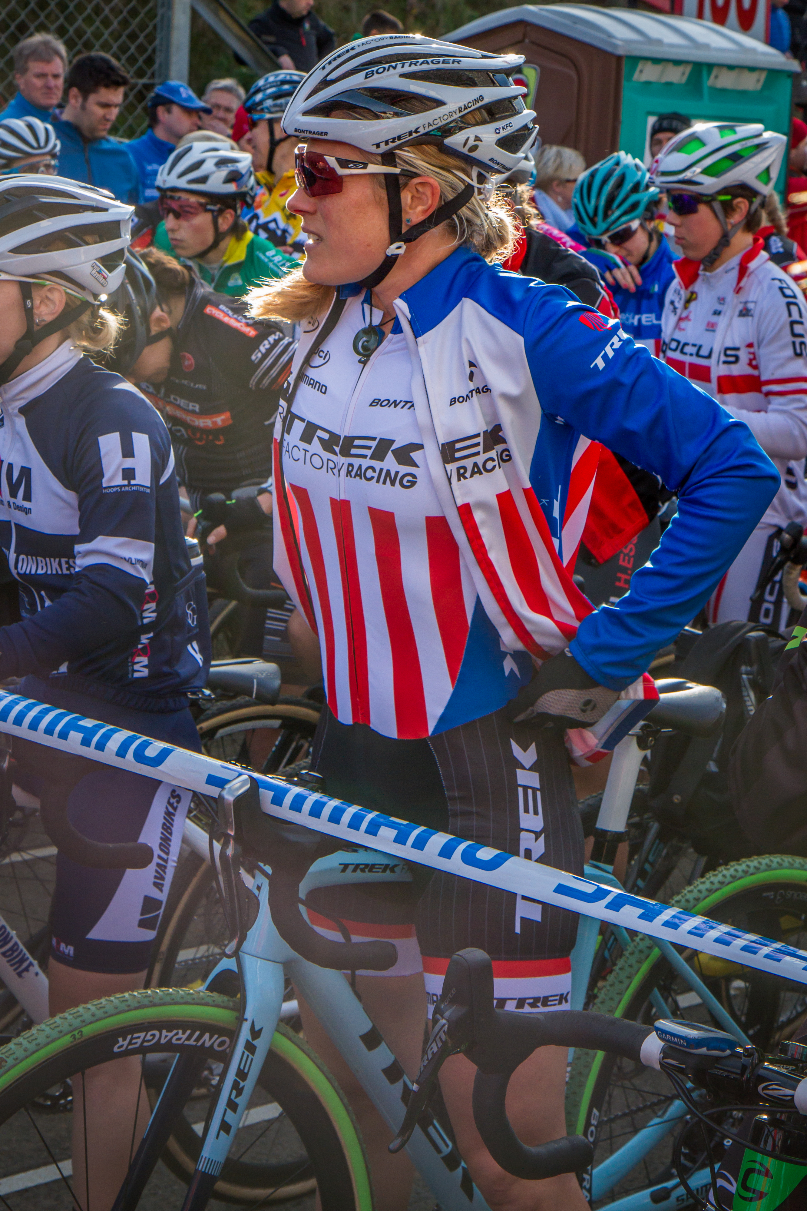 Katie Compton (USA), glamming up the start line. UCI Cyclocross World Cup, Heusden-Zolder, Belgium, 2015.